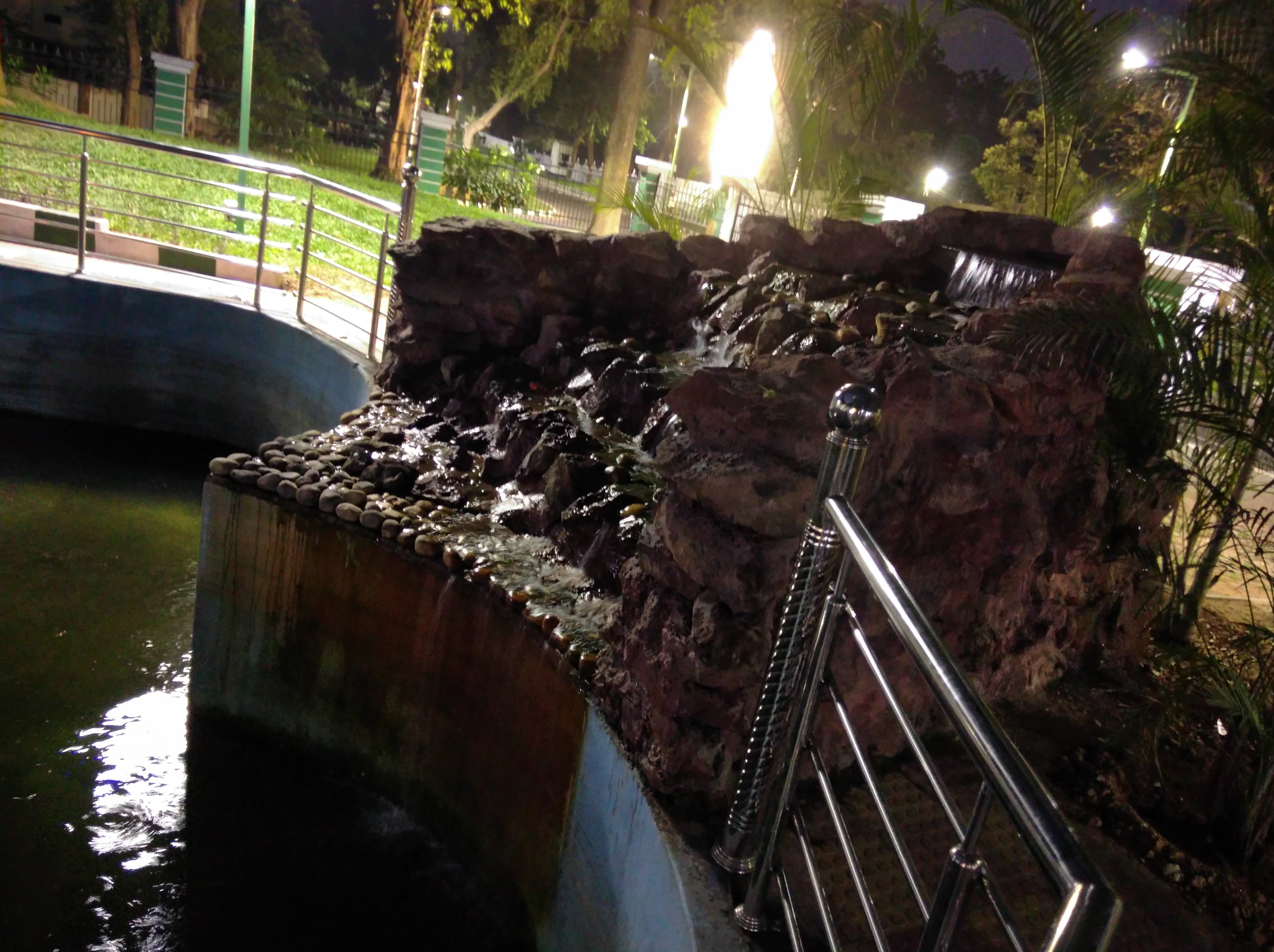 an attractive model of water flowing down a stream near the fish pond